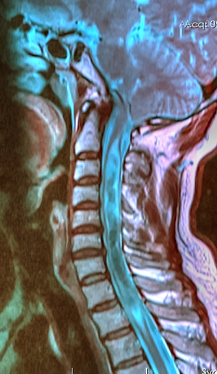 Dichromatic, False-color MRI. Cervical spine, T1 Red, T2, Green& Blue